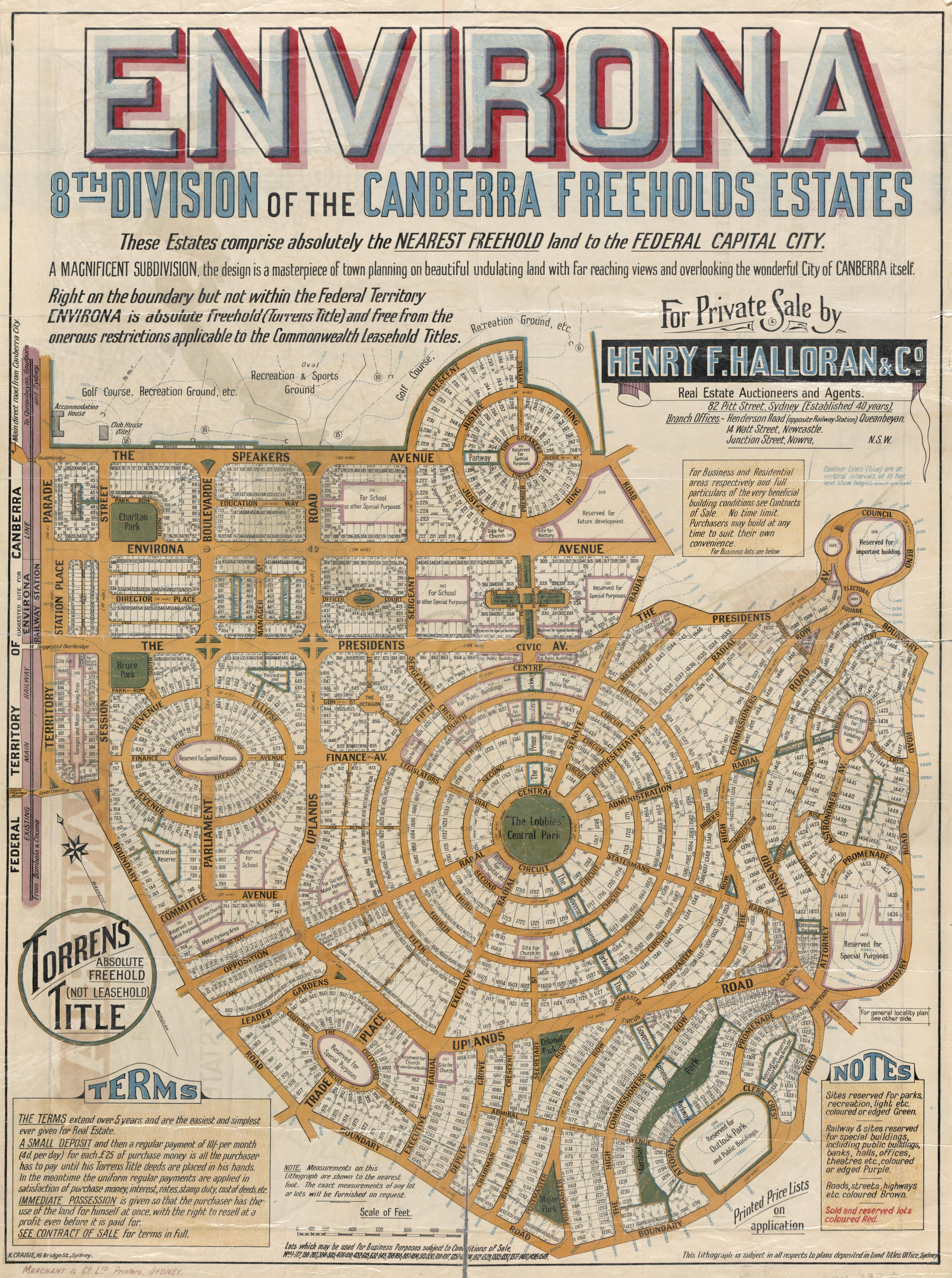 Environa 8th division of the Canberra freeholds estates one side of a promotional map produced by Henry F. Halloran & Co. 82 Pitt St Sydney. Environa was a proposed suburb to the east of Hume in NSW Australia. publisher is K. Craigie at 16 Bridge St. printer is Marchant & Co. Ltd. size is 65.5 X 90.5 cm